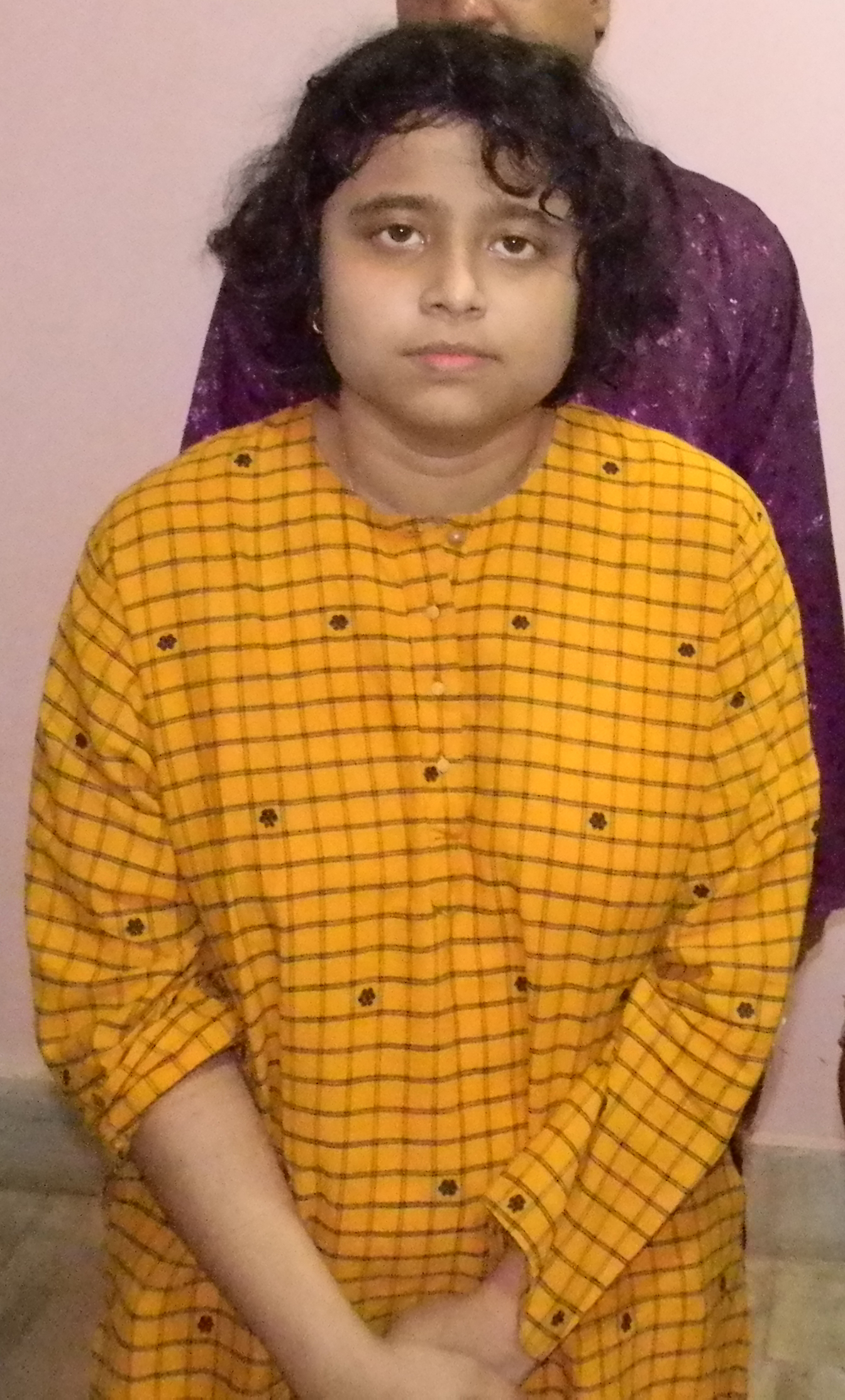 Tabla player Rimpa Siva This media file is uploaded with Odia loves Wikipedia